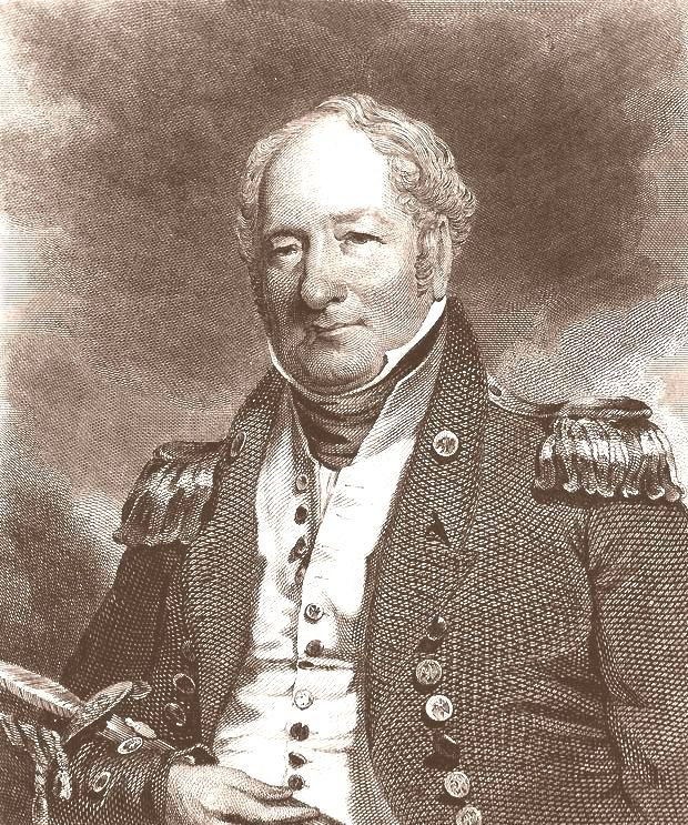 Captain James Barron, U.S. Navy (1769-1851)